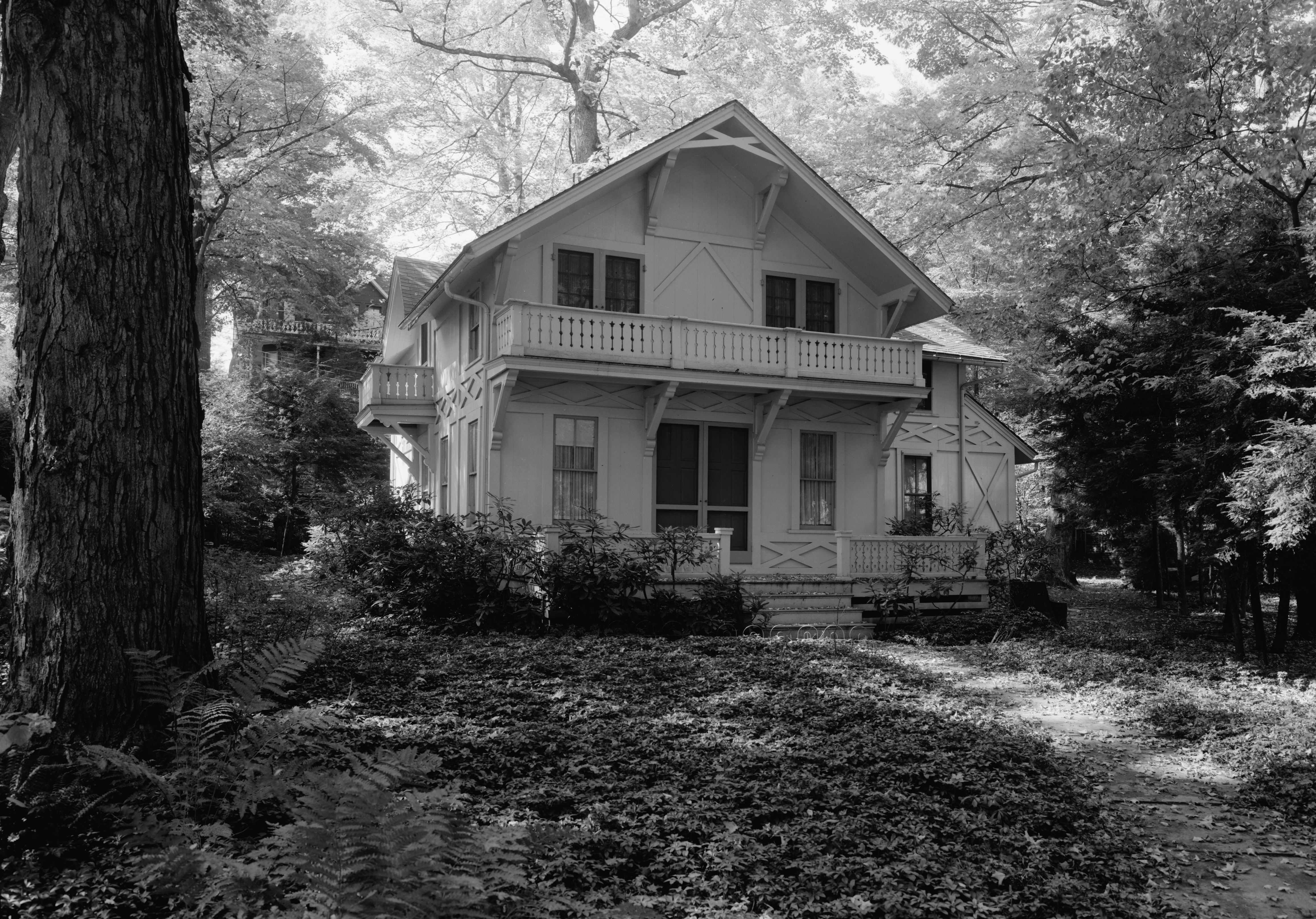 Lewis Miller Cottage, Chautauqua Institution, Chautauqua, Chautauqua County, New York.